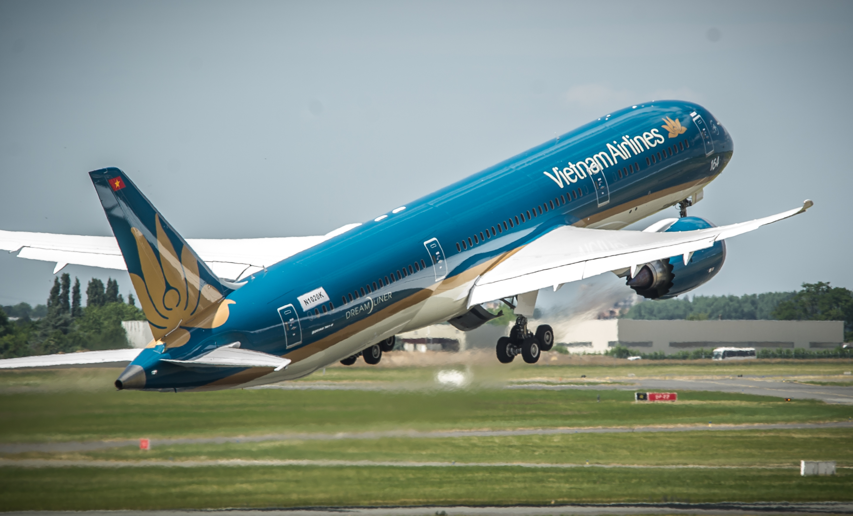 Vietnam Airlines Boeing 787-9 at Paris Air Show 2015